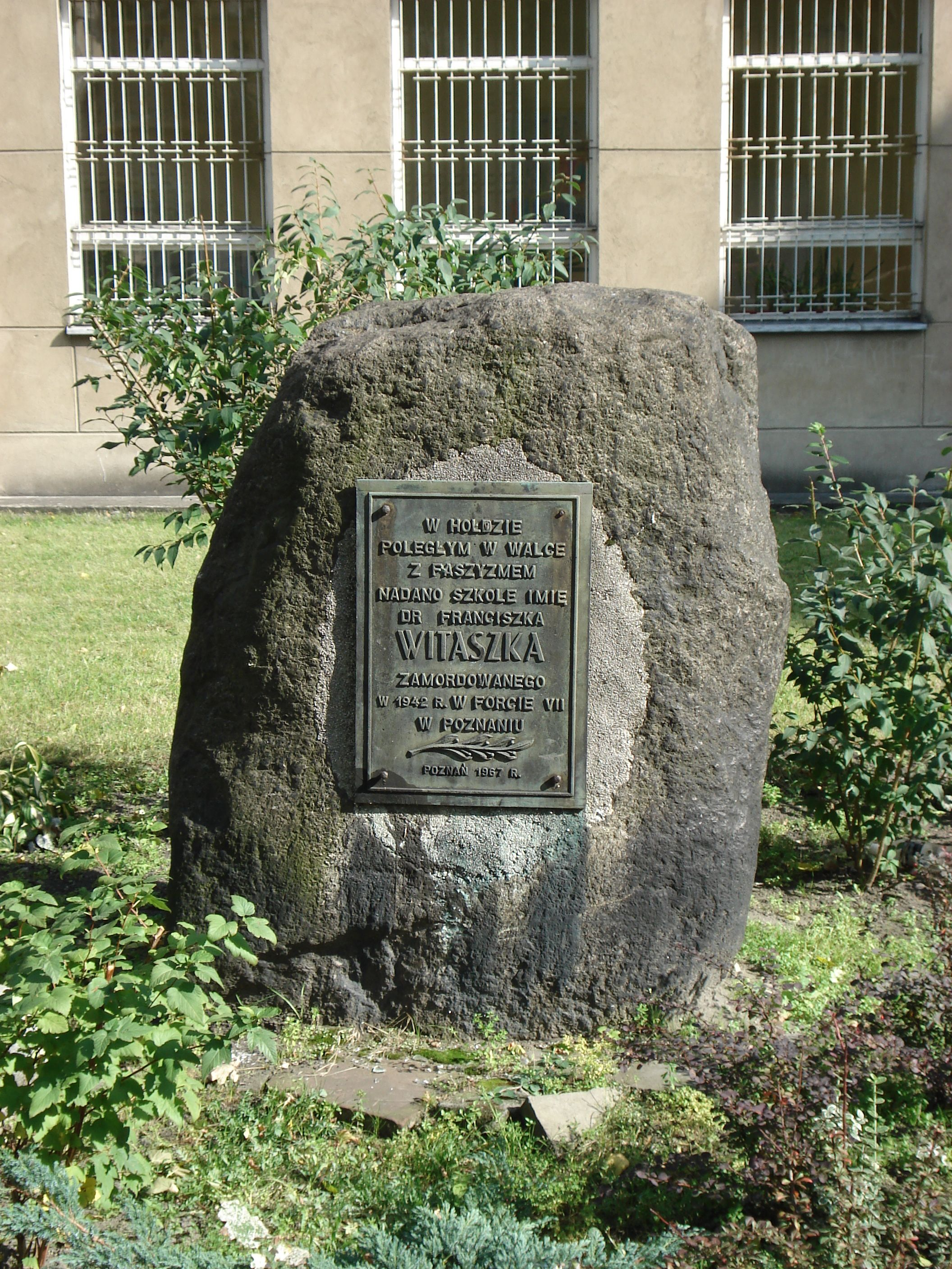 Memorial stone of Dr. Franciszek Witaszek in Poznań, Łukaszewicza Street